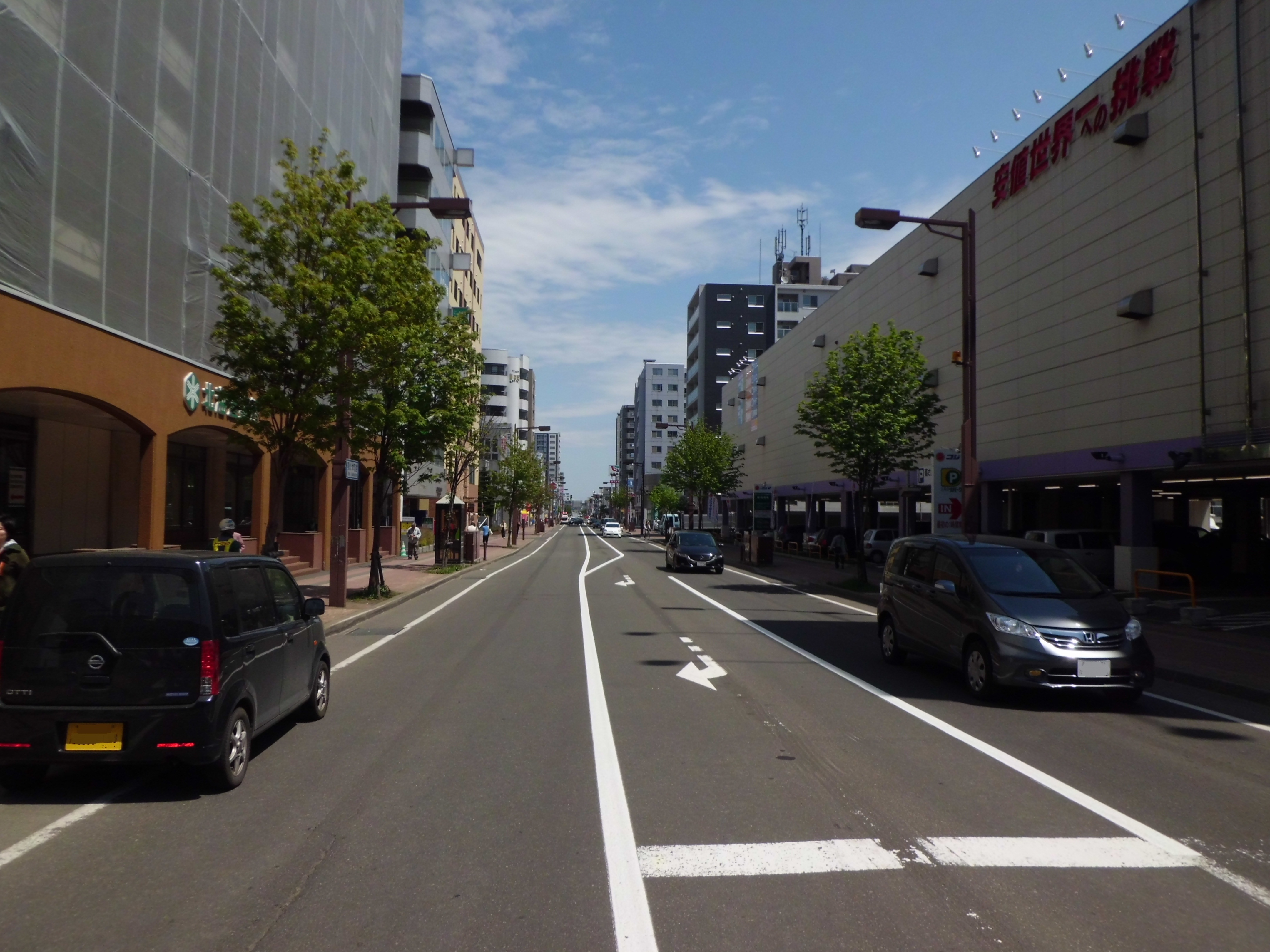 Hokkaido prefectural road 277 Kotoni Station Shinkotoni line. Looking northeast from the station.